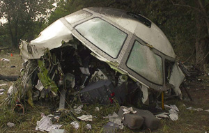 Crash site of Comair Flight 5191.